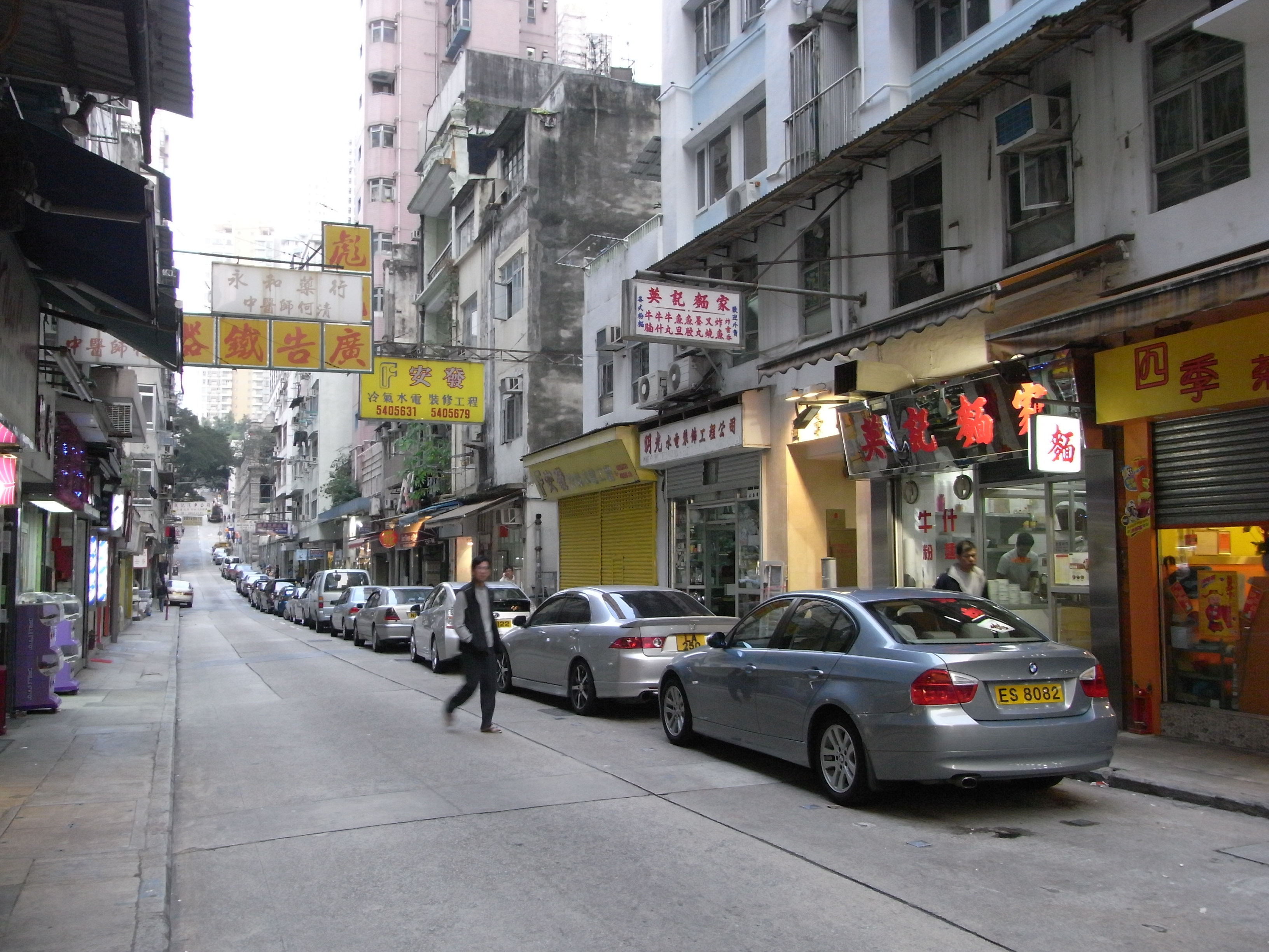 西環 高街東望 黃昏時分